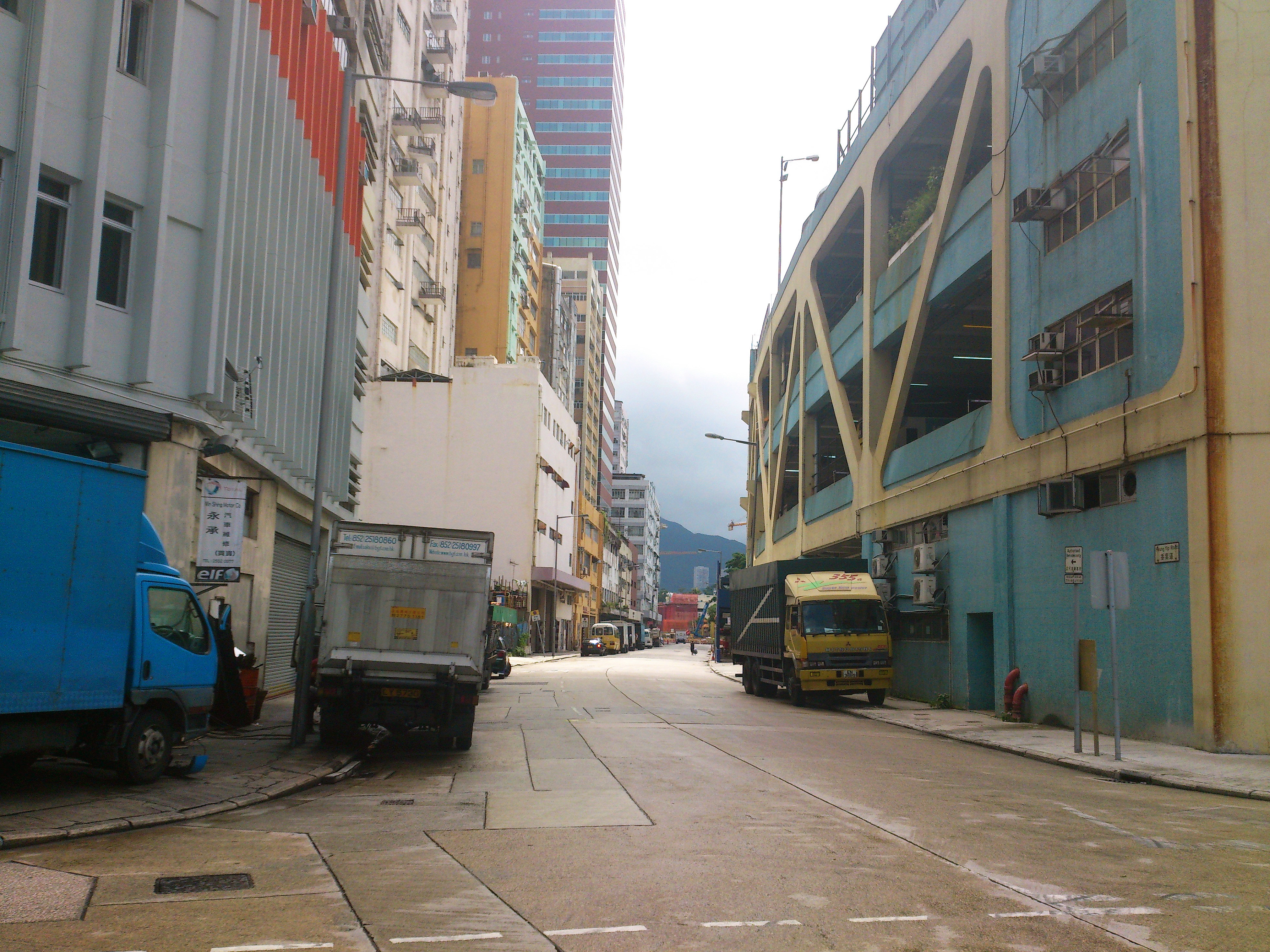 Heung Yip Road near NWFB Depot